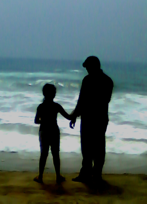 Photograph of Father and Daughter at RK Beach in Visakhapatnam, Andhra Pradesh